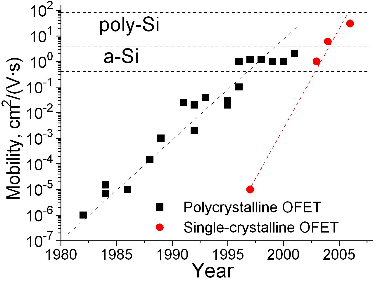 Evolution of carrier mobility in organic field-effect transistor. Data from Tatsuo Hasegawa and Jun Takeya (2009). "Organic field-effect transistors using single crystals" (free download). Sci. Technol. Adv. Mater. 10: 024314.